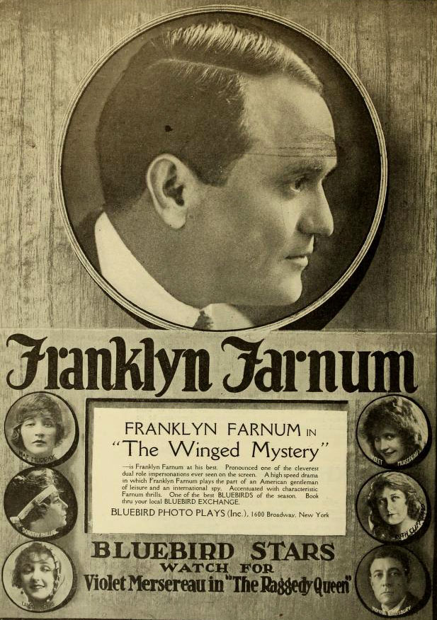 Advertisement with Franklyn Farnum in The Winged Mystery, in Moving Picture World, Nov. 1917.